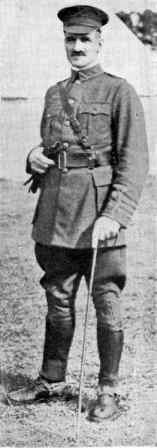 Lieutenant Colonel William Malone, Wellington Infantry Battalion in "The New Zealanders at Gallipoli", by Fred Waite. Published 1920 by Whitcombe & Tombs Limited. The New Zealand Electronic Text Collection.